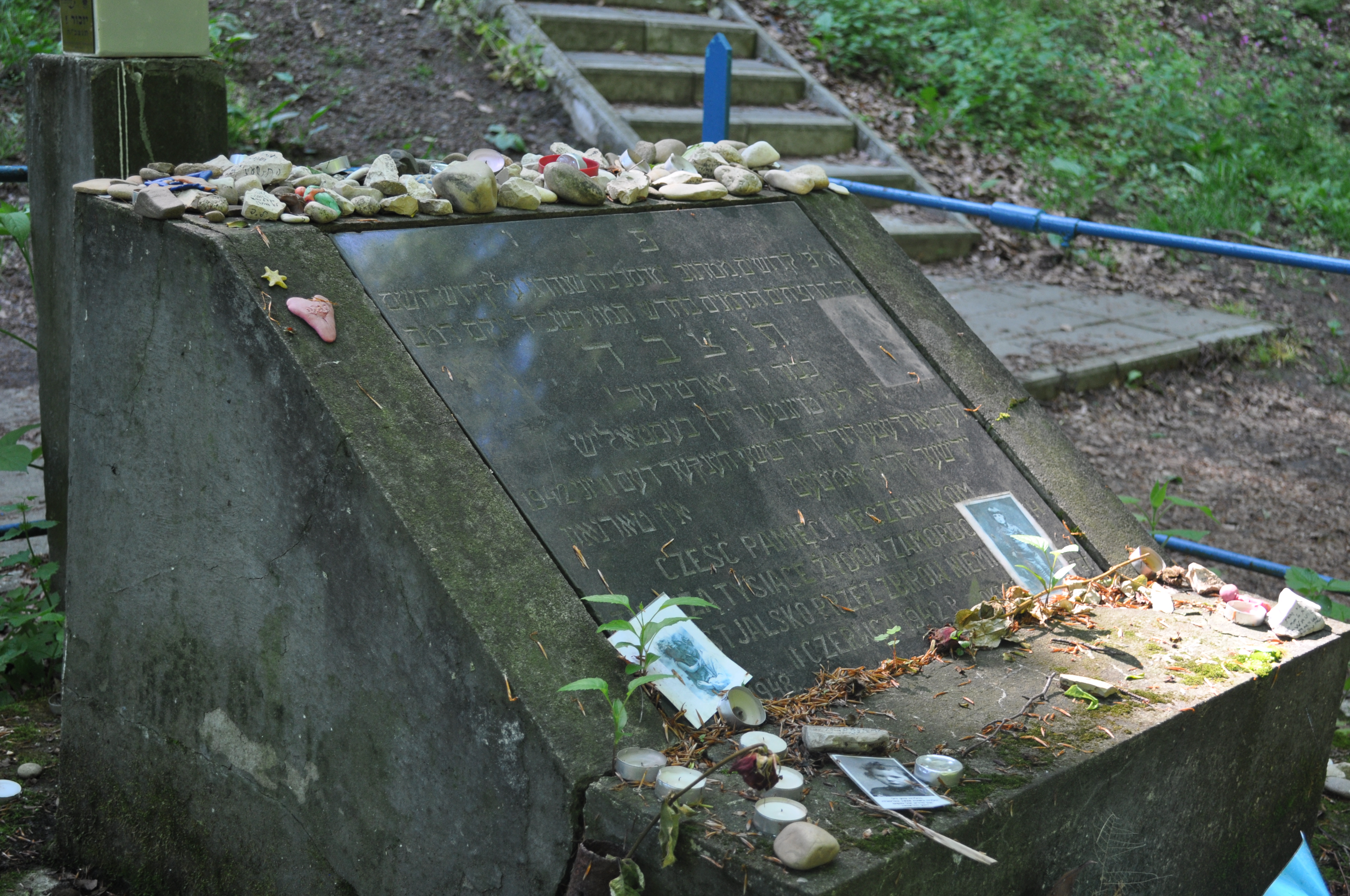 Buczyna Forest at Zbylitowska Gora. Poland. World War II cementery of Jews and Poles, German victims.